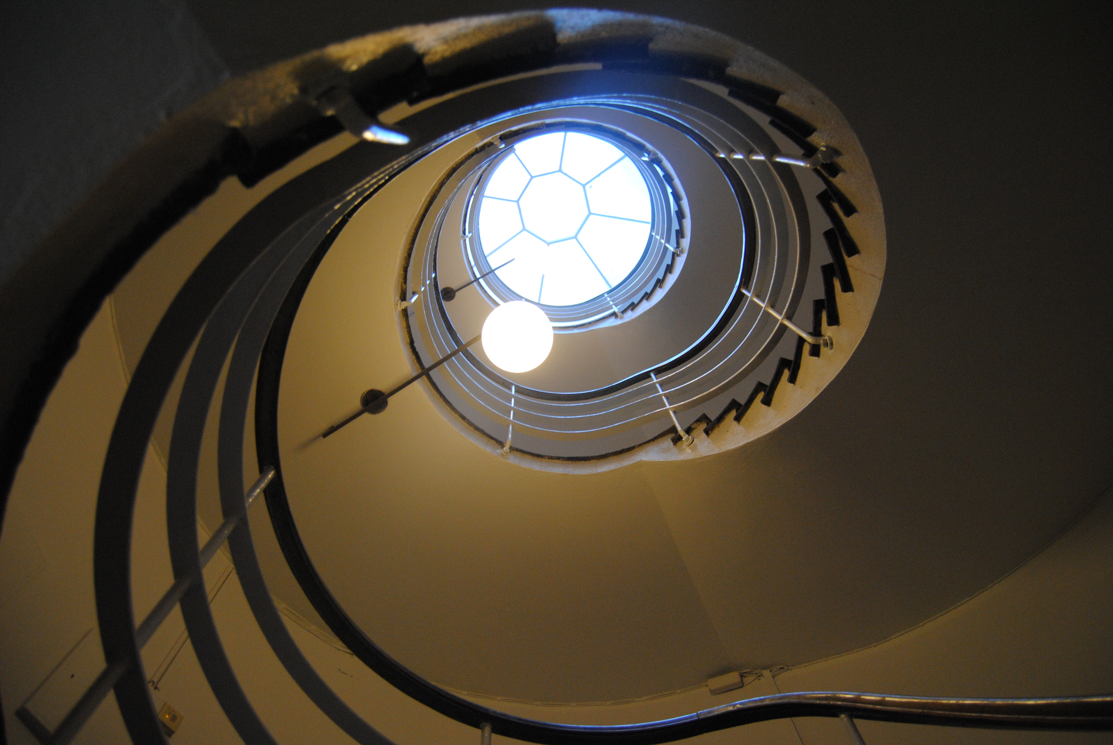 Staircase - Drammensveien 115 BNorsk bokmål: Oppgang til Drammensveien 115 B